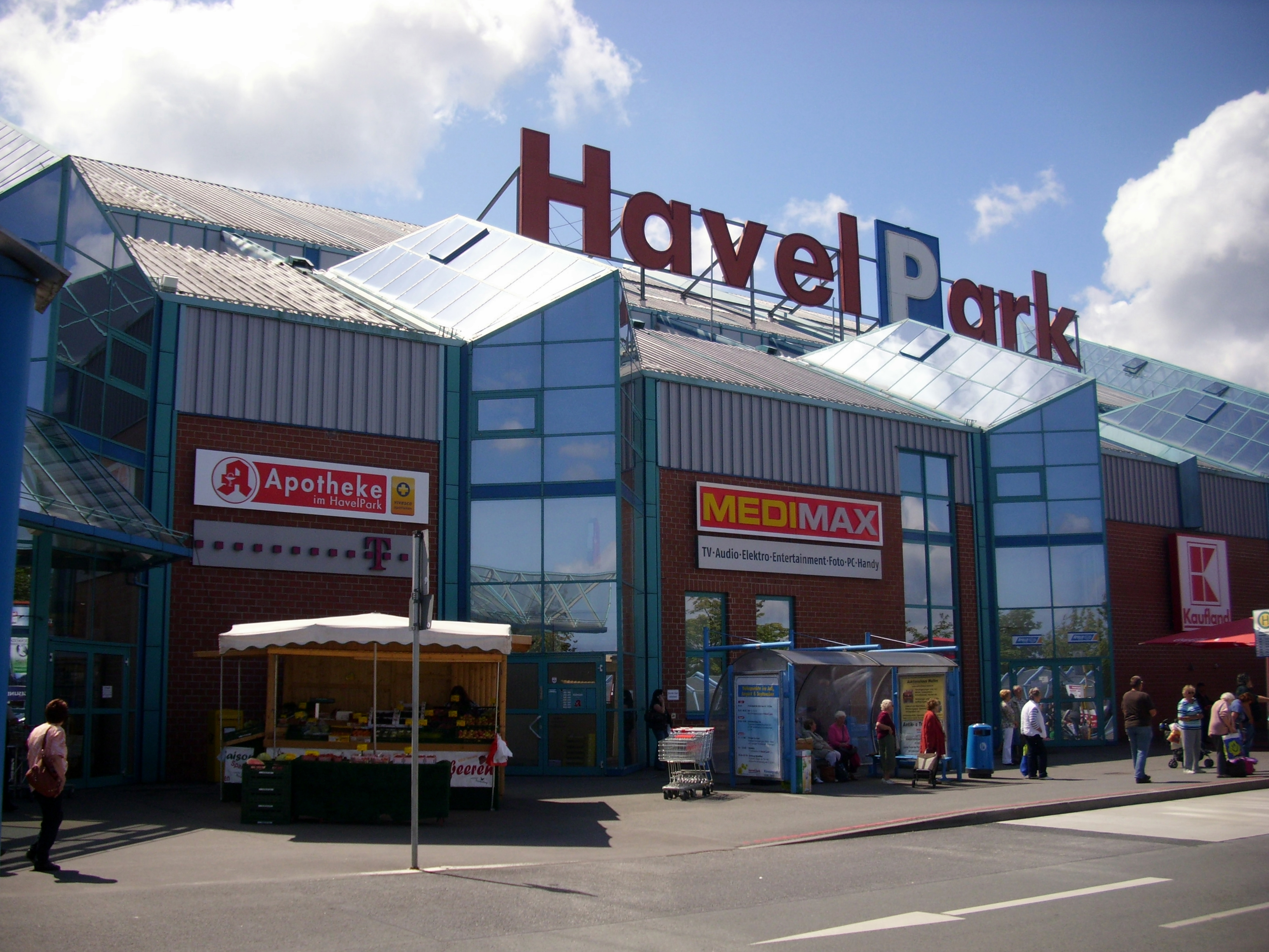 Shopping Center Havelpark